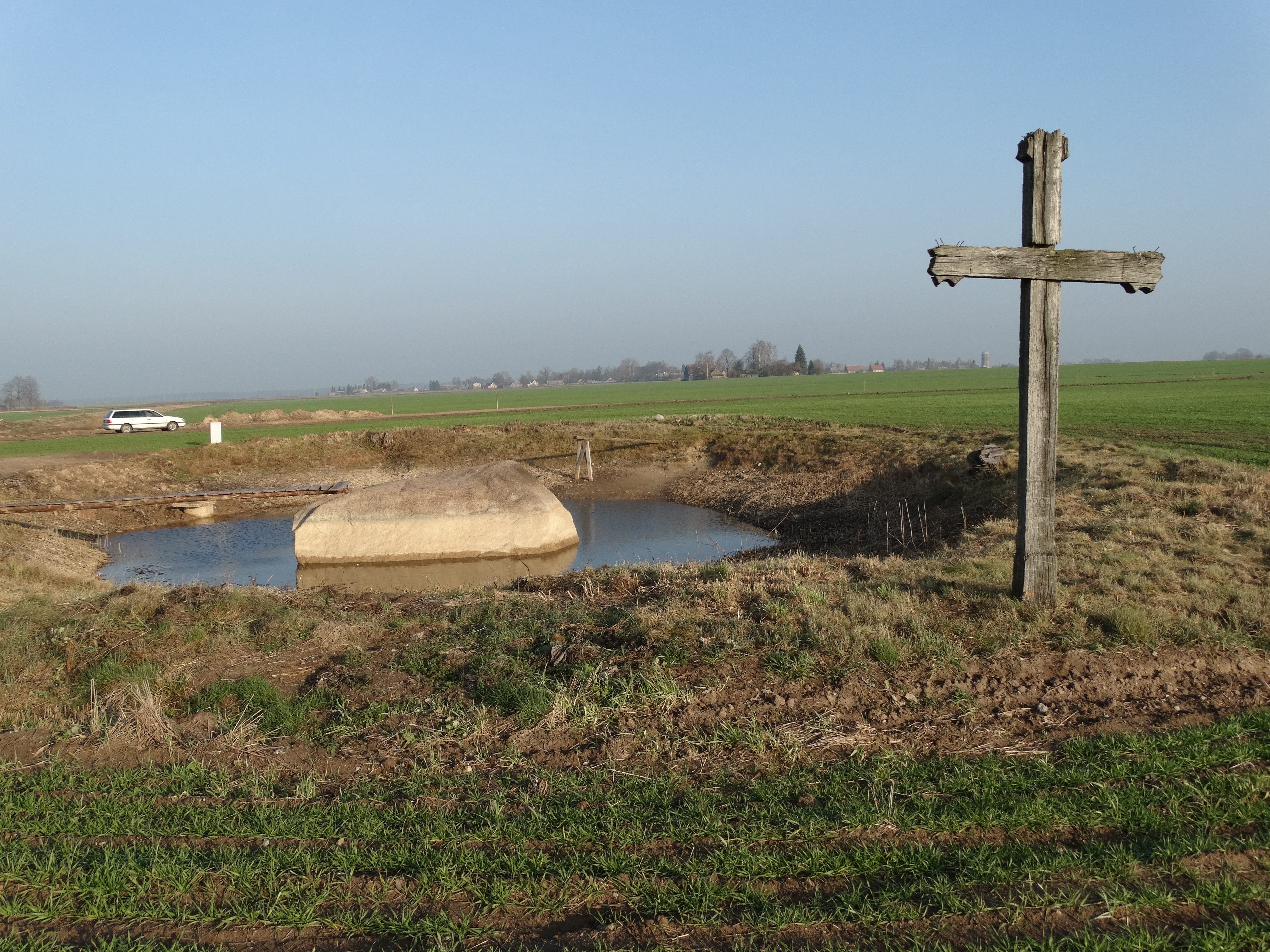 Banionių Stone, Panevėžys District, Lithuania